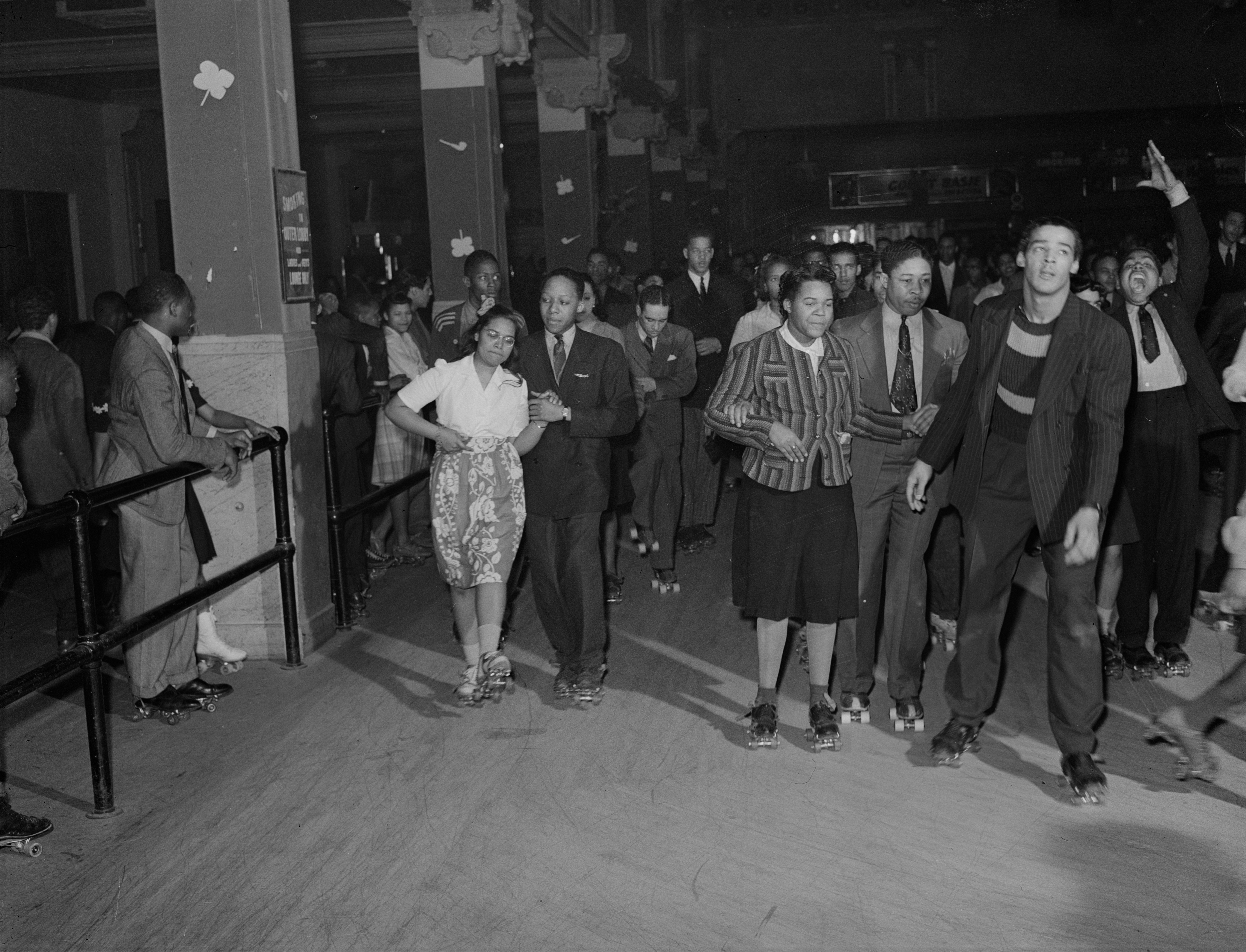 Roller skating at the Savoy Ballroom on Saturday night. Chicago, Illinois